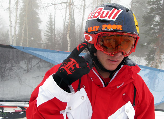 Simon Dumont getting ready to head out